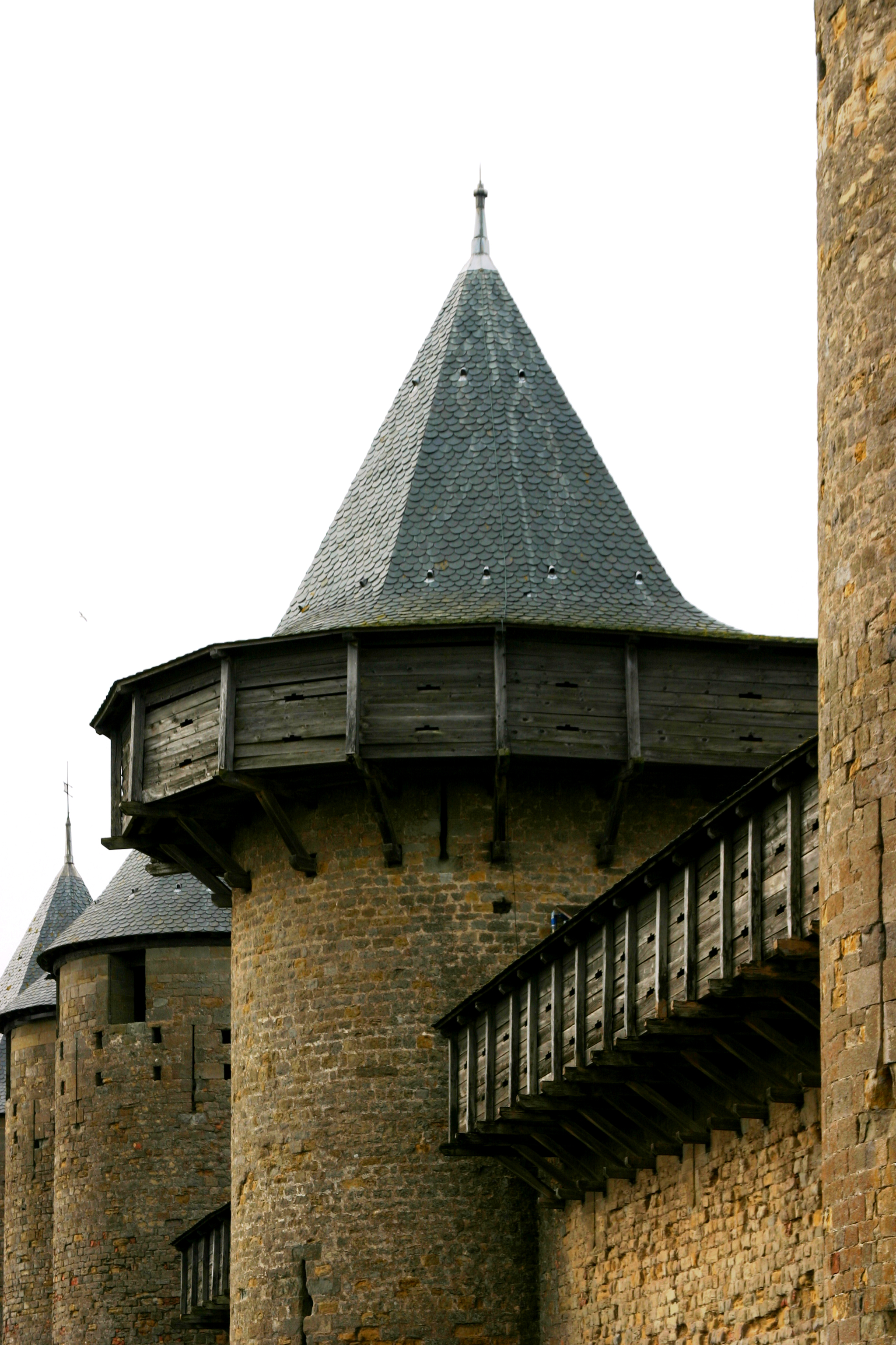 Château de Carcassonne (2014)